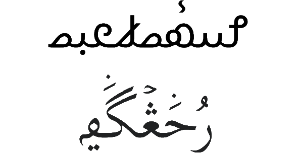 Example of writing in the Rohingya alphabet: Rohingya